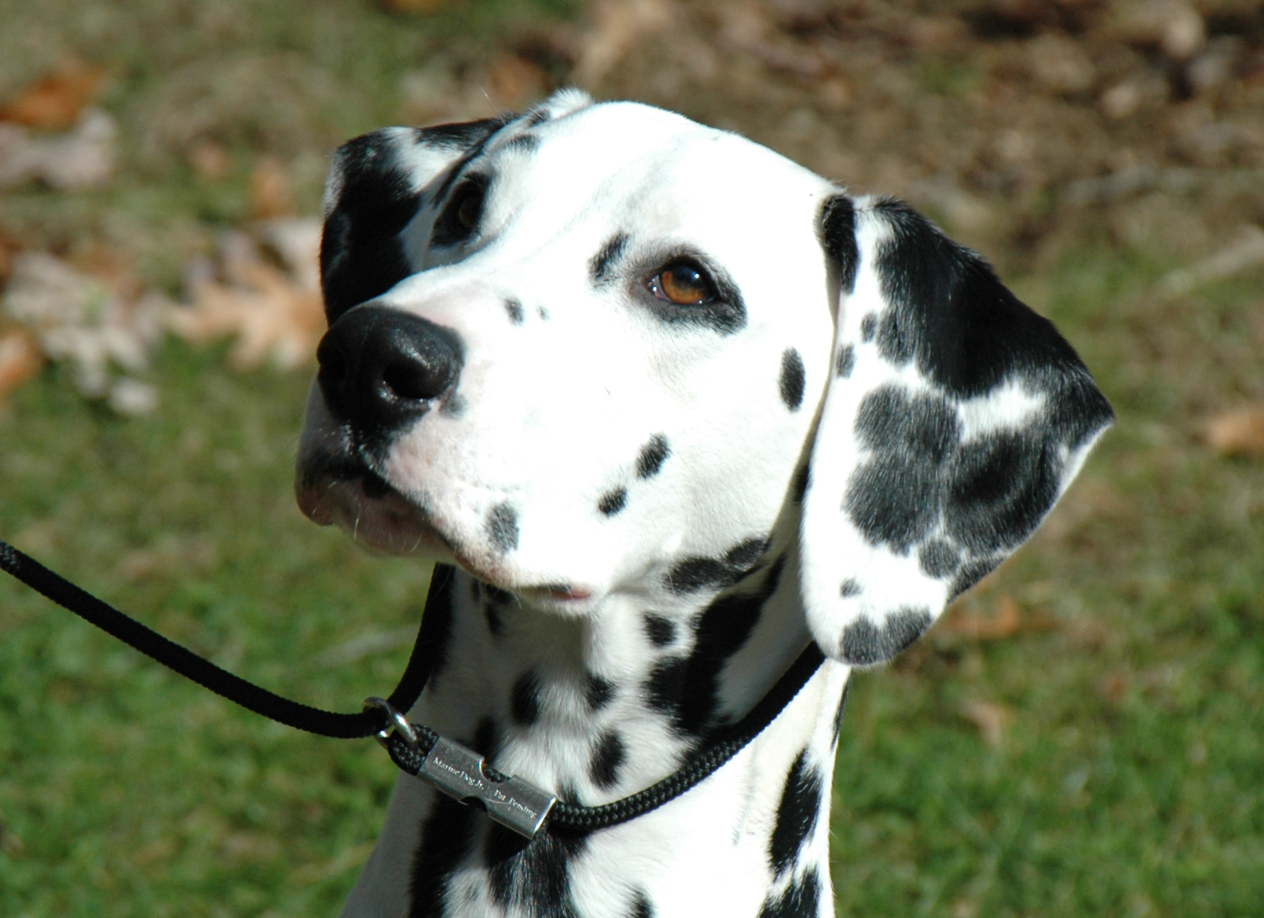 Head shot of a show quality Dalmatian bitch.